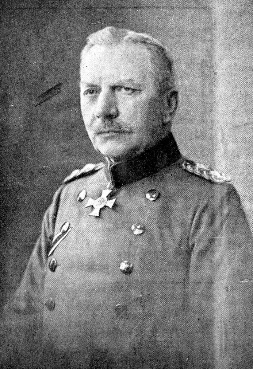 Otto von Emmich